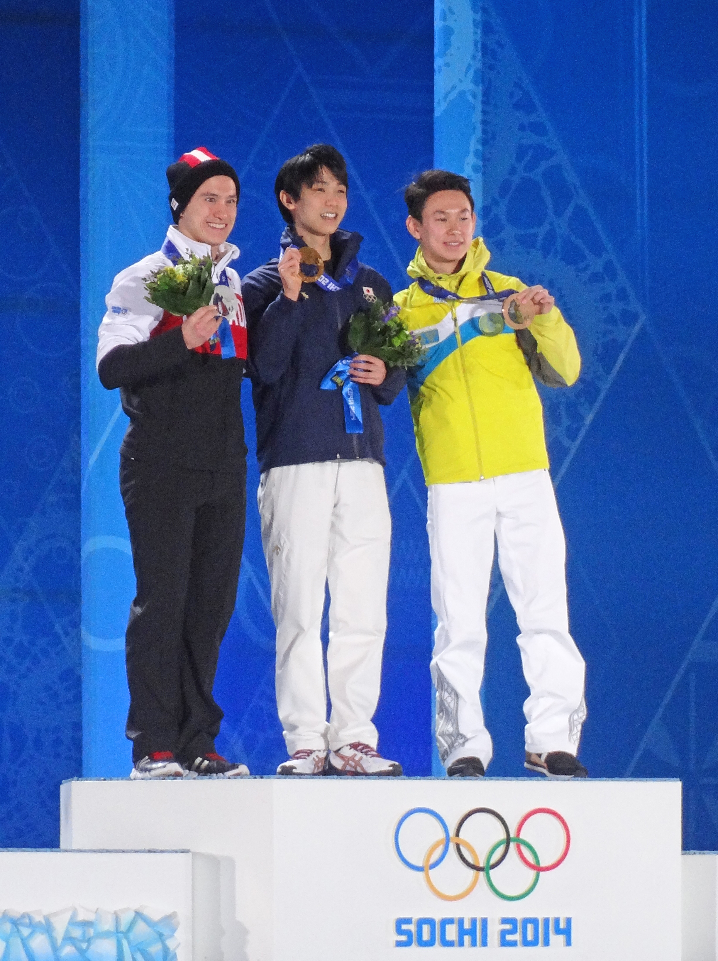 Men's Free Skating - Figure Skating - Sochi 2014. Gold: Yuzuru Hanyu, Japan. Silver: Patrick Chan, Canada. Bronze: Denis Ten, Kazakhstan.